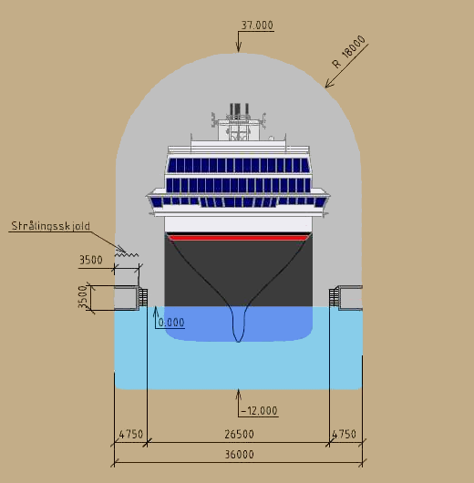 A diagram illustrating the profile of the Stad Ship Tunnel